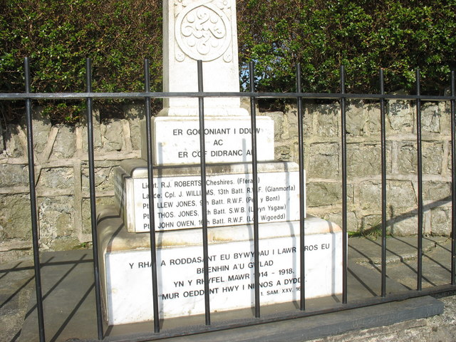 Detail from the Pentraeth War Memorial The five men commemorated here belonged respectively to the three Regiments of Foot, the 22nd (Cheshire Regt), the 23rd(Royal Welsh Fusiliers) and the 24th(South Wales Borderers) The stone reads "To the Glory of God and the Undying Remembrance of (the name of five men, a subaltern, an NCO and three Privates follows). The ones who laid down their lives for King and Country in the Great War 1914-1918. 'A protection they were to us night and day' 1 Samuel XXV 16". Thankfully, Pentraeth was spared further losses in WWII. 389308